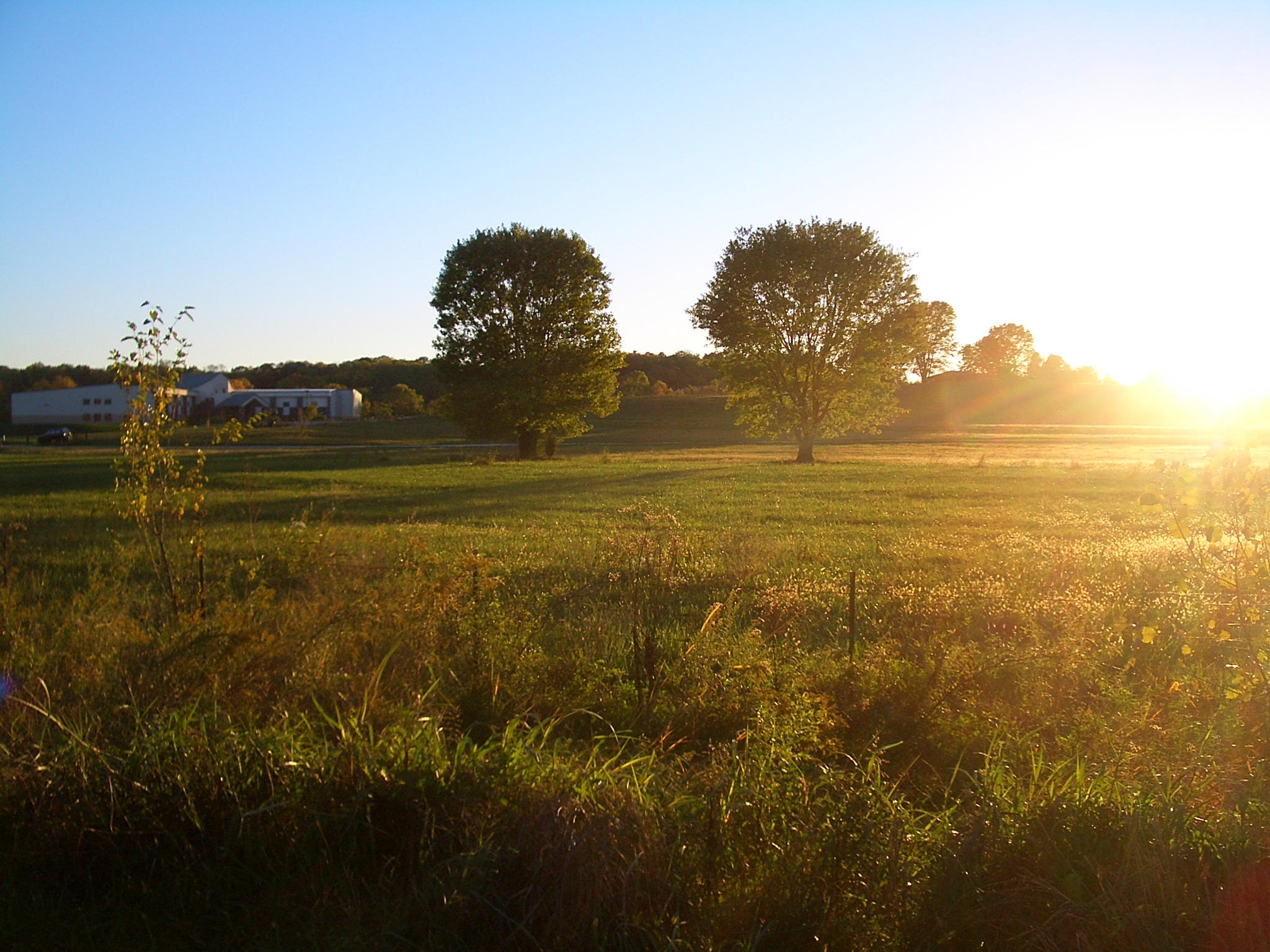 October evening on Bloomington's South-West side. The building may be Emmanuel Baptist Church, seen from somewhere near the crossing of That Road and the Clear Creek Trail.